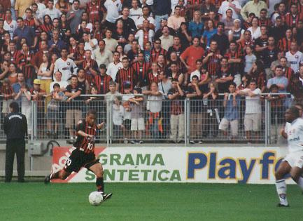 Kléberson. Ídolo Atleticano